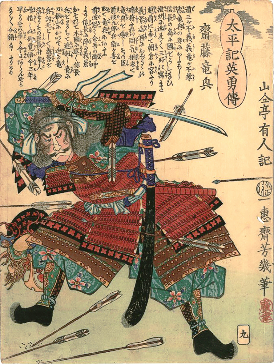 An ukiyo-e of Saitō Tatsuoki (1548–August 14, 1573). He was a daimyō in Mino Province.